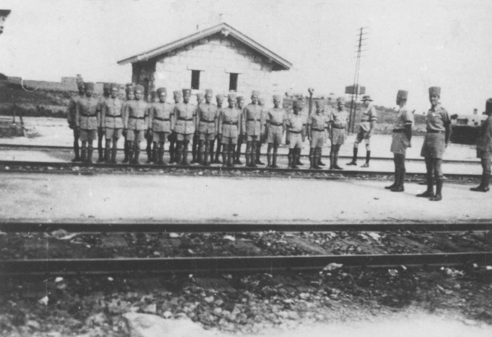 Ras el Ein (Today known as Rosh HaAyin South) railway station in the late 1930's. A force of Notrim - "ghaffirs" at the station - Notrim was a Jewish Police Force set up by the British in Mandatory Palestine authorities in 1936 to help defend Jewish lives and property during the 1936–39 Arab revolt in Palestine.